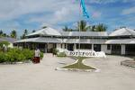 Administration building at Motufoua Secondary School, Vaitupu, Tuvalu